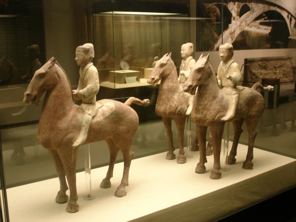 Painted ceramic statues of Chinese cavalrymen from the Western Han Dynasty (202 BC - 9 AD), now located at the Hainan Provincial Museum.